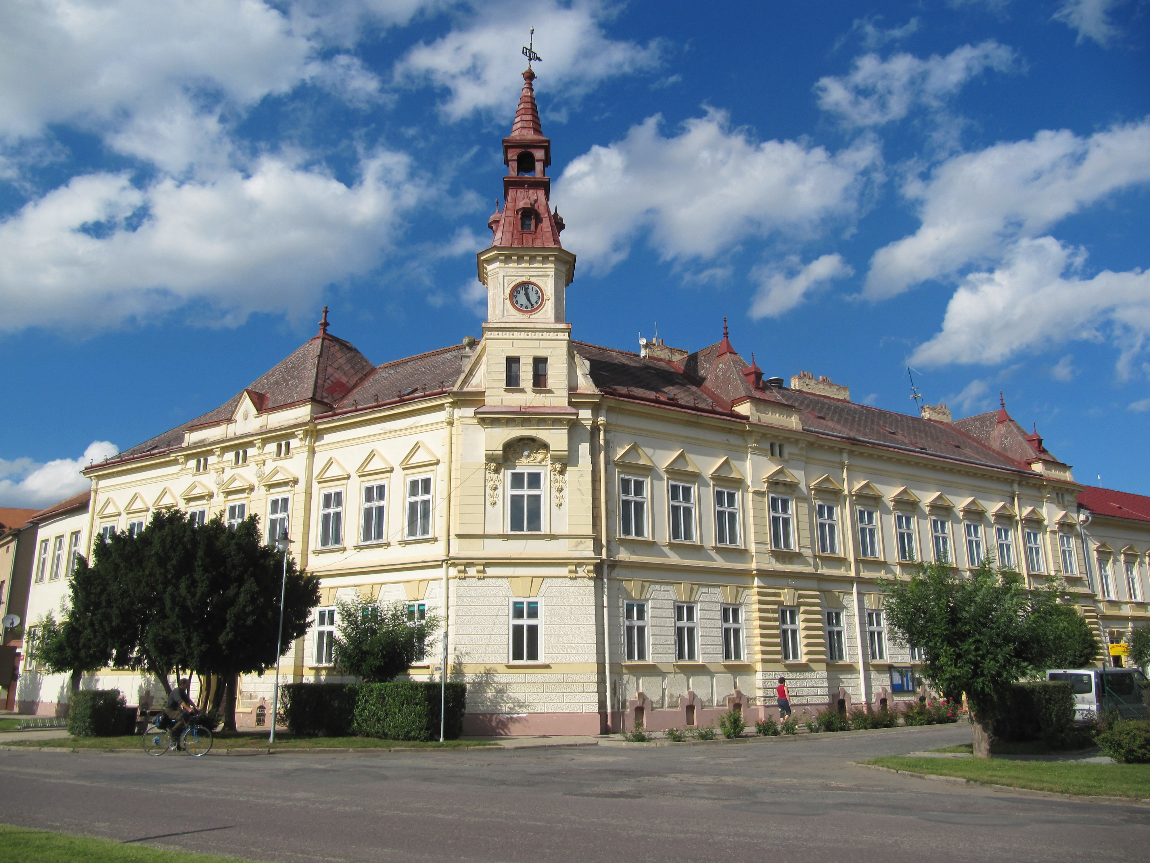 Jaroslavice in Znojmo District, Czech Republic. Town hall.